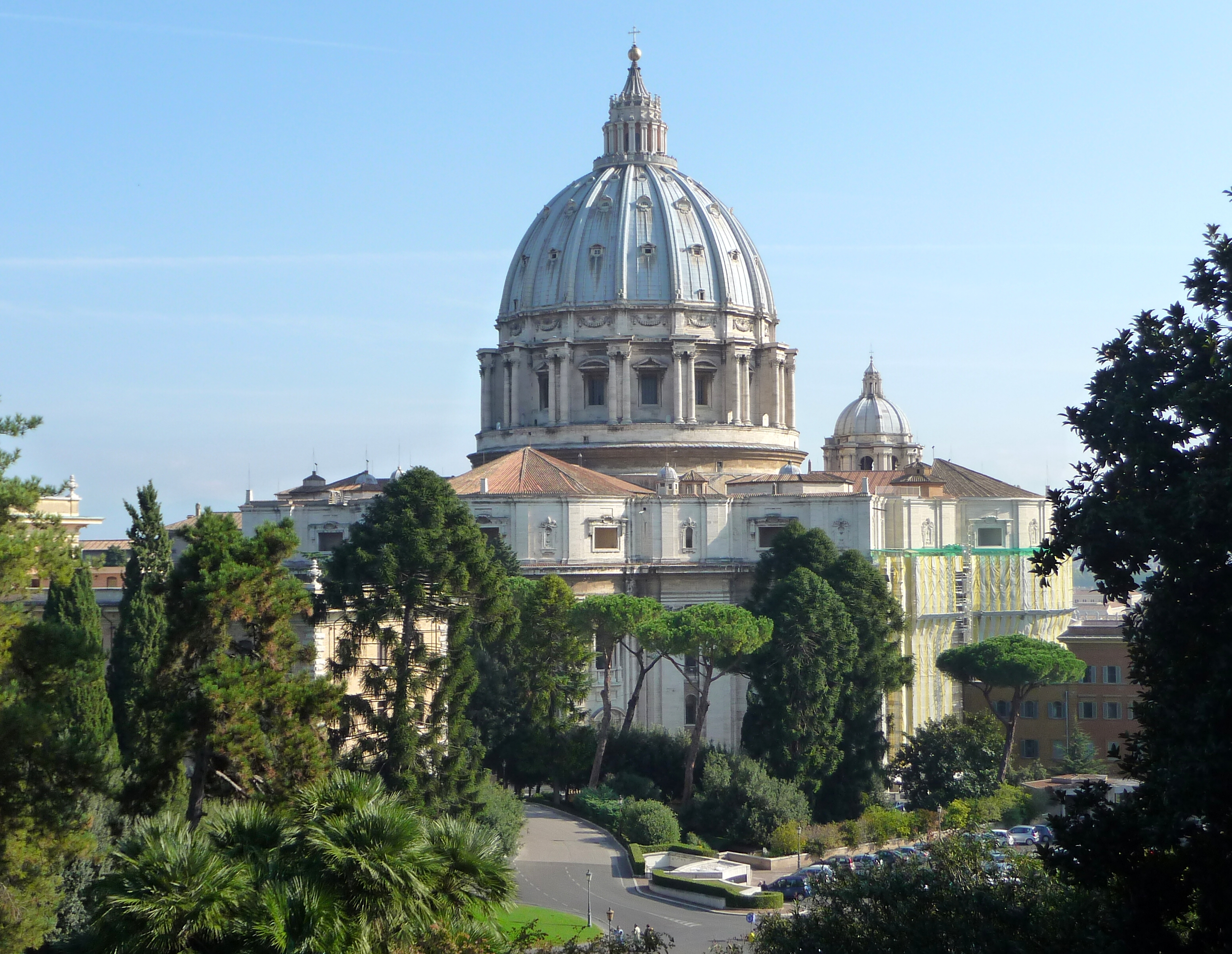 Basilica of Saint Peter (Vatican).